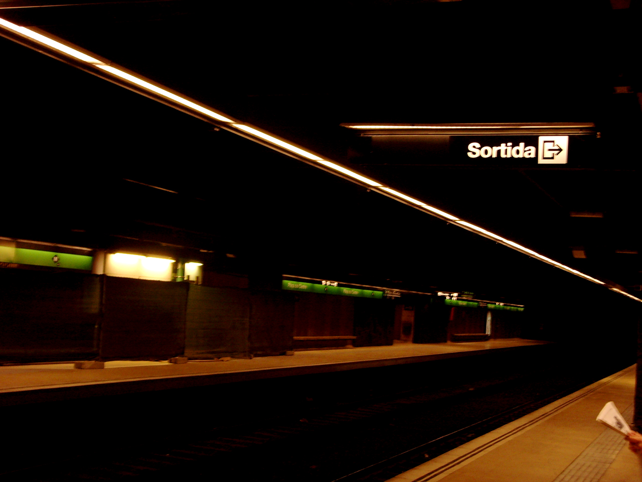 Plaça del Centre.